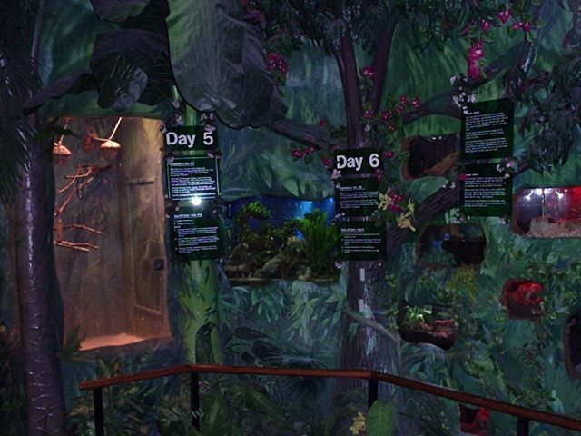 Taken by User:Mycota October 2003 The Garden of Eden exhibit at the Museum of Creation and Earth History, Santee, California.